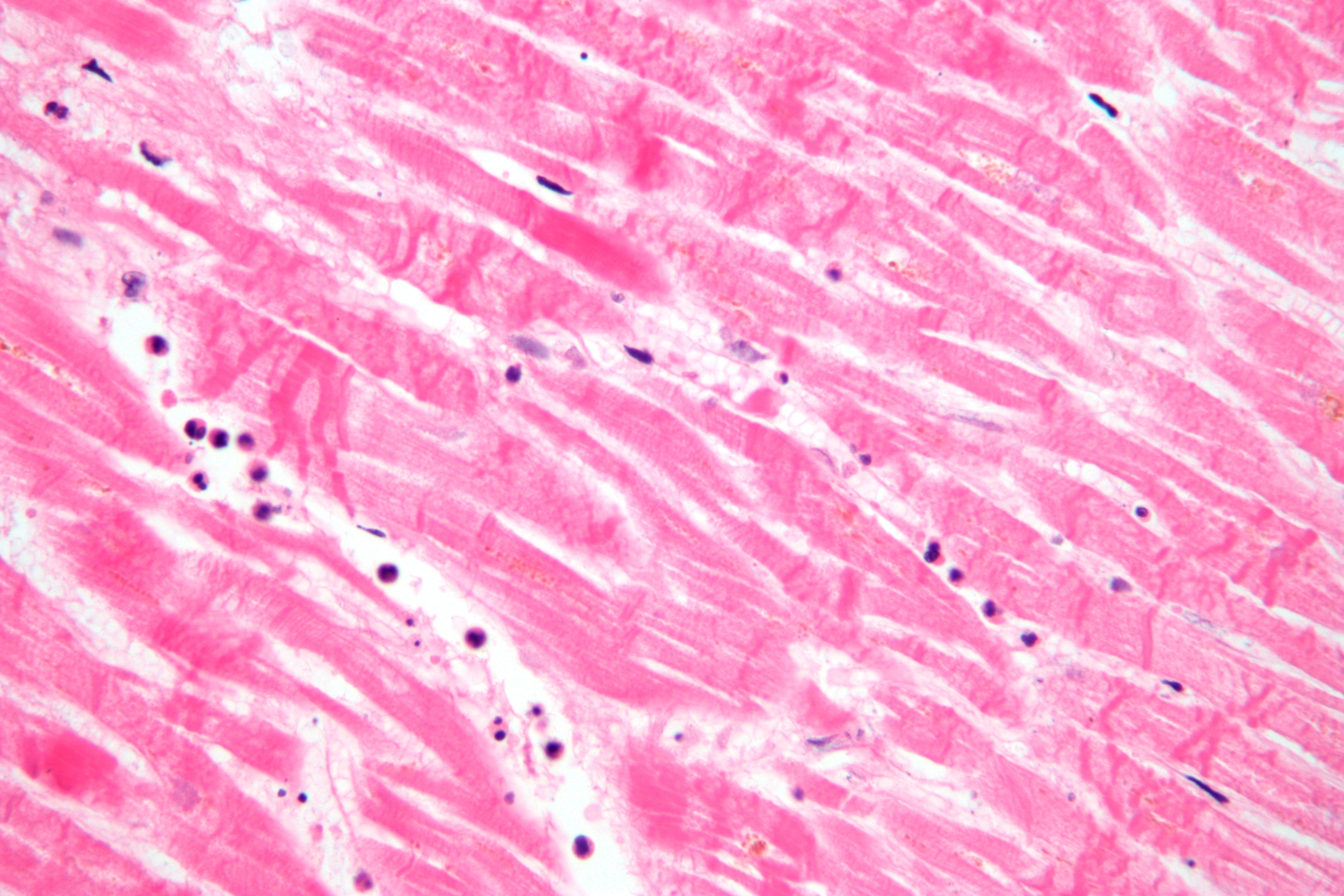 Very high magnification (400x) micrograph of a myocardial infarction ("heart attack" in common parlance) showing prominent contraction band necrosis with karolysis (loss of the nuclei), edema and an inflammatory infiltrate consistent of monocytes. Related images High mag.